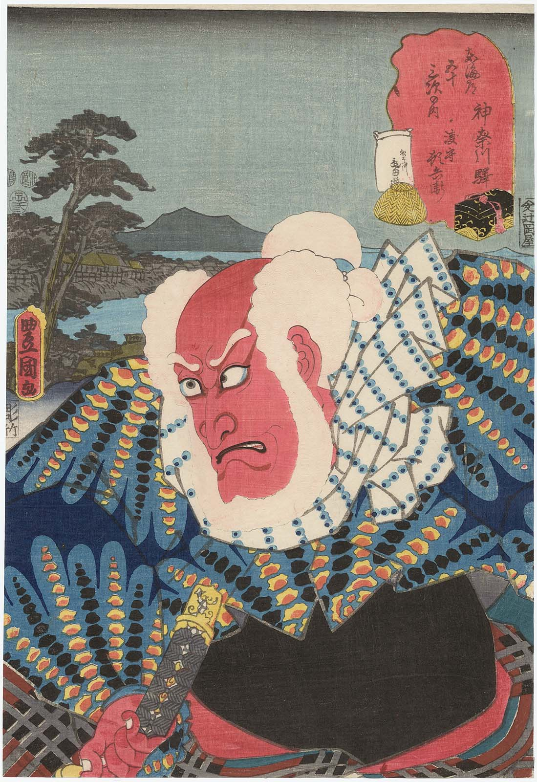 Part from the series Fifty-three Stations of the Tōkaidō (Tōkaidō gojūsan tsugi no uchi)